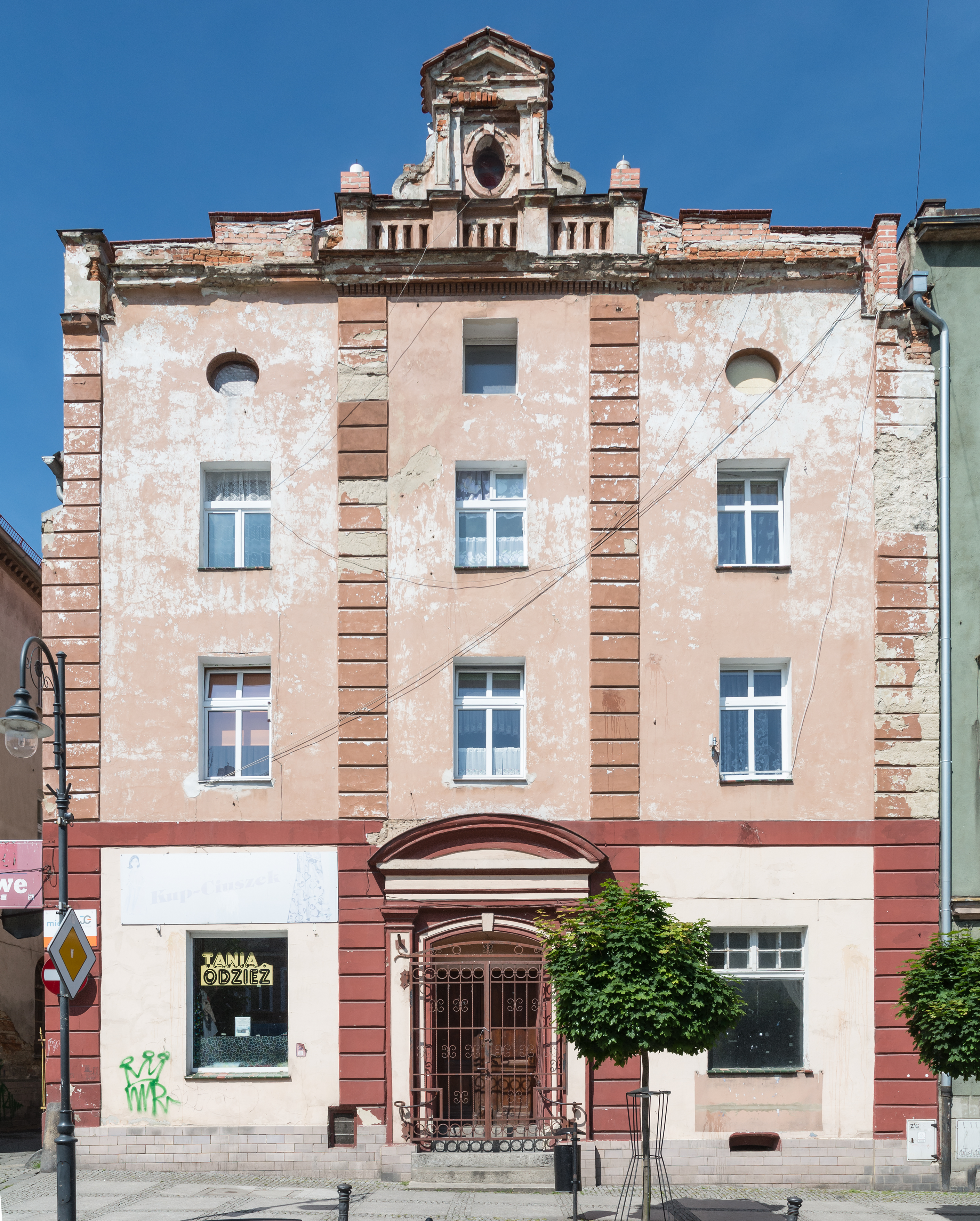 16 Market Square in Niemcza